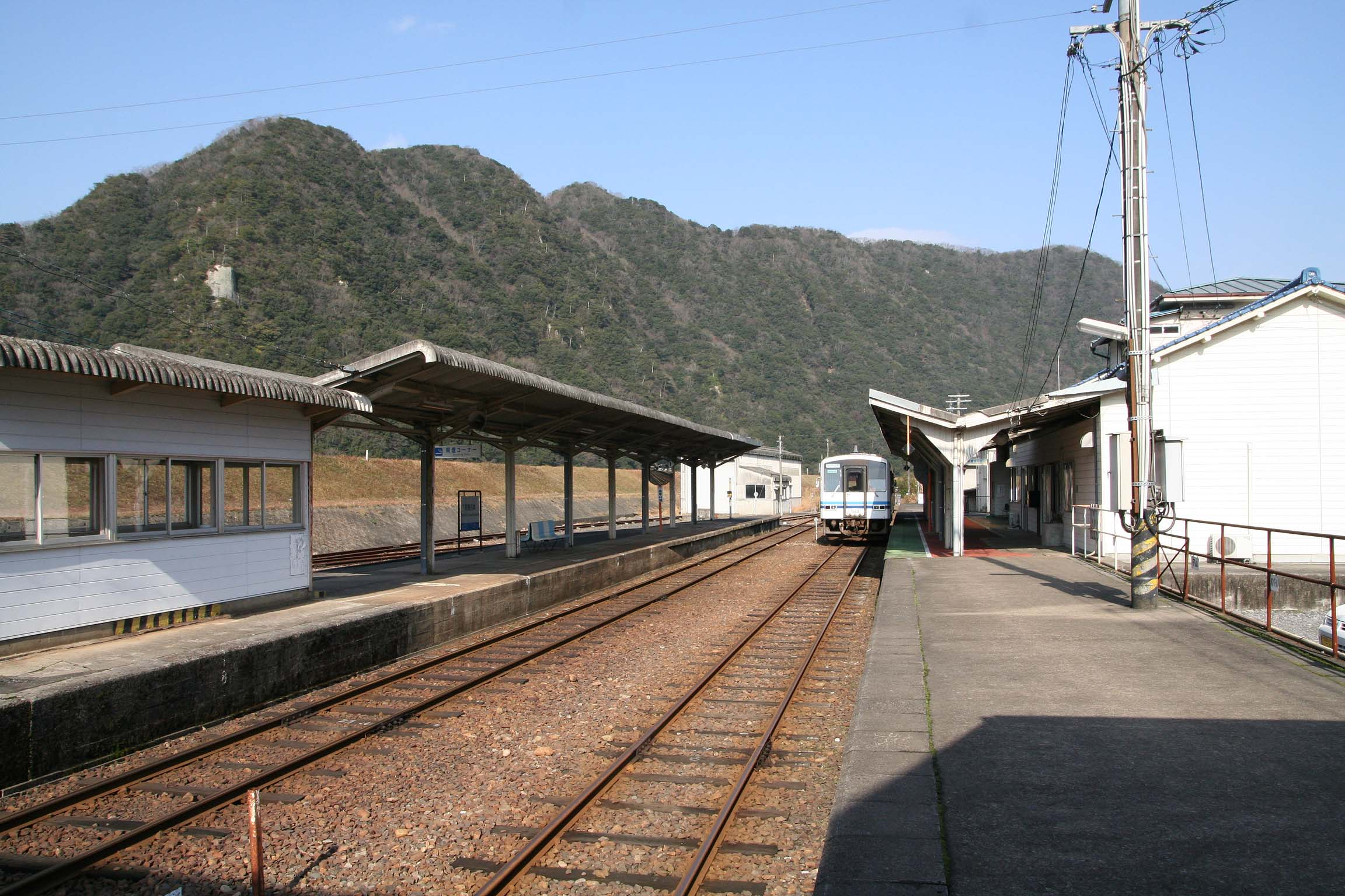 West Japan Railway Sankō Line Iwami-Kawamoto Station